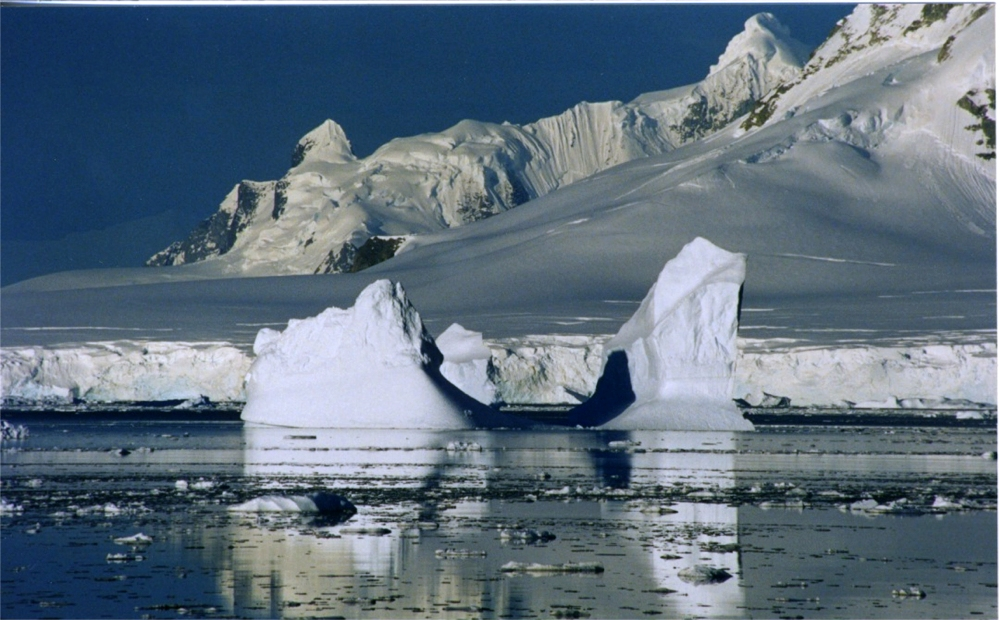 Glacier and iceberg in Antarctica.